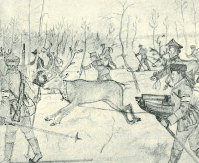 Finnish troops of the 1918 Pechenga expedition. A sketch by Thorsten Renvall (1868-1927).